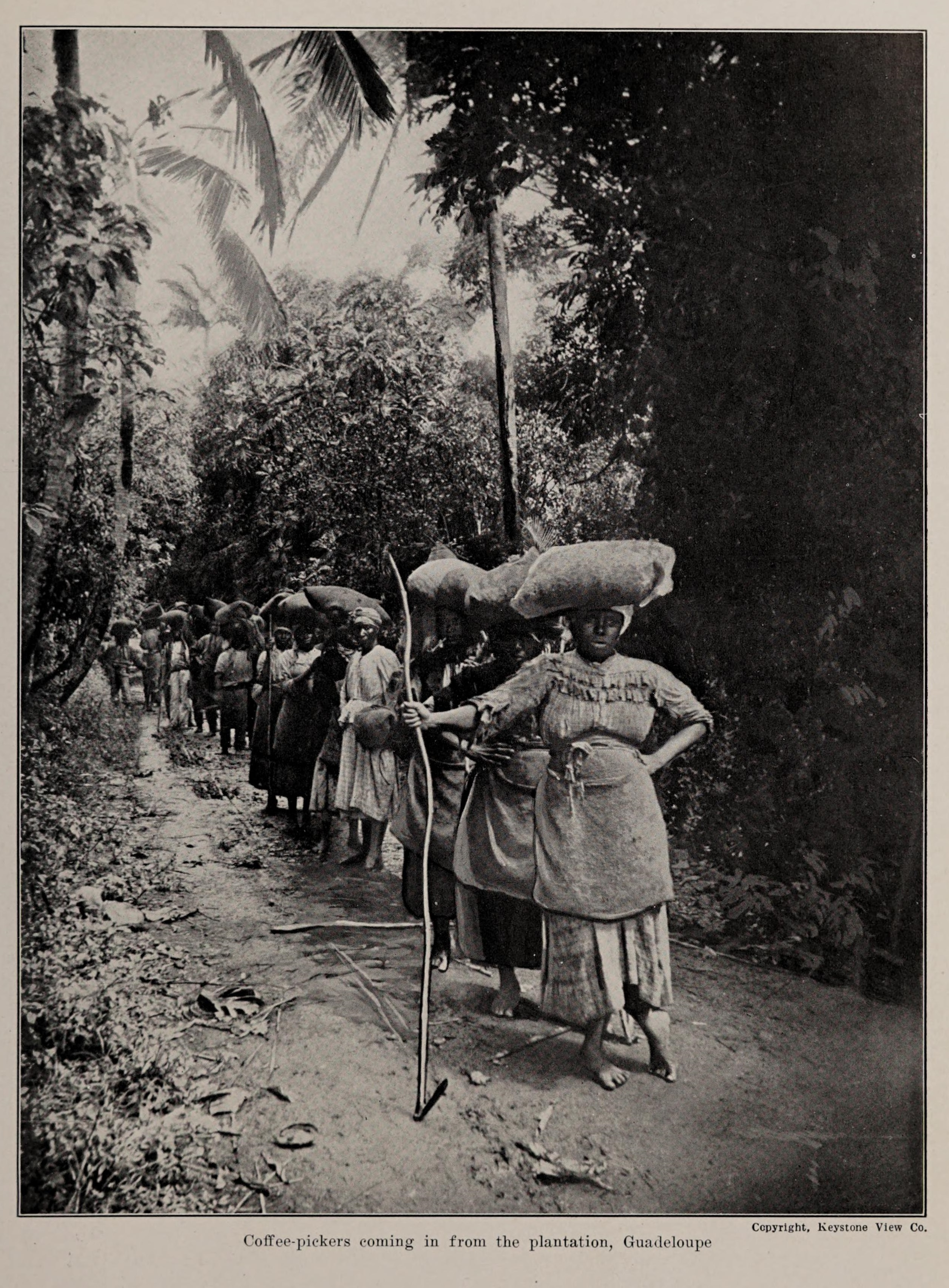 Coffee-pickers coming in from the plantation, Guadeloupe, photo from The Encyclopedia of Food by Artemas Ward (photo credit: Copyright, Keystone View Co.)